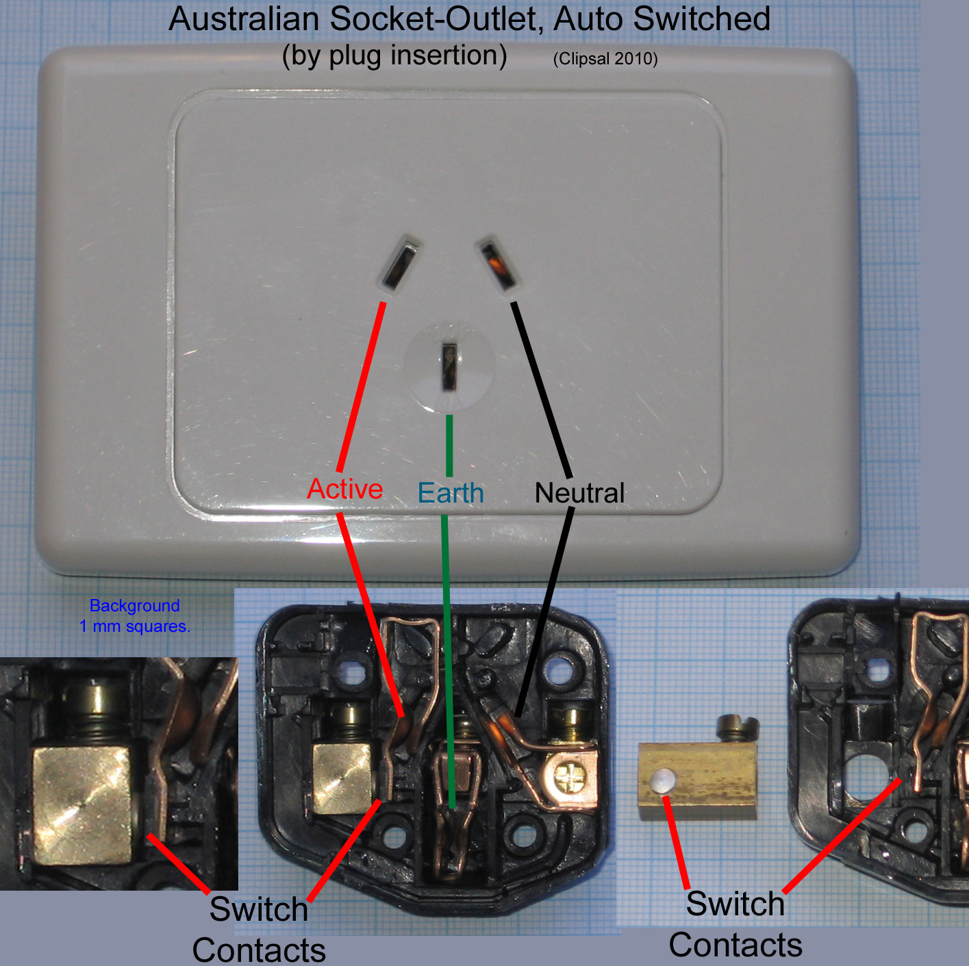 Australian Socket-Outlet, Auto Switched by plug insertion. Removing the plug opens the contacts in the socket to provide the same level of safety as a conventional switched socket when switched off. Automatically switched socket outlets are most commonly used to supply power to refrigerators, some computers and other accessories that normally should not be switched off. The absence of a switch prevents the accidental switching off of such devices.